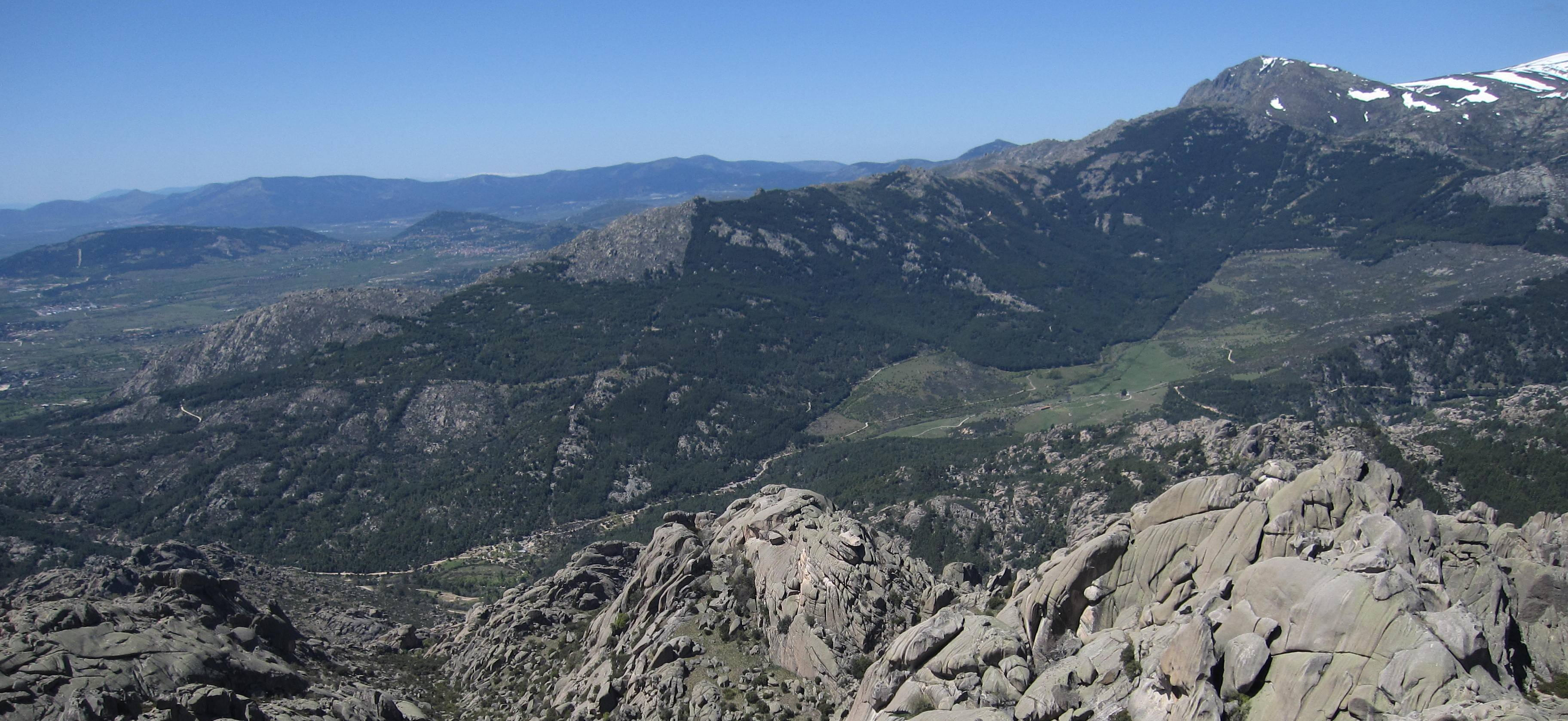 Los Porrones mountain range, a part of Guadarrama mountain range (central Spain).